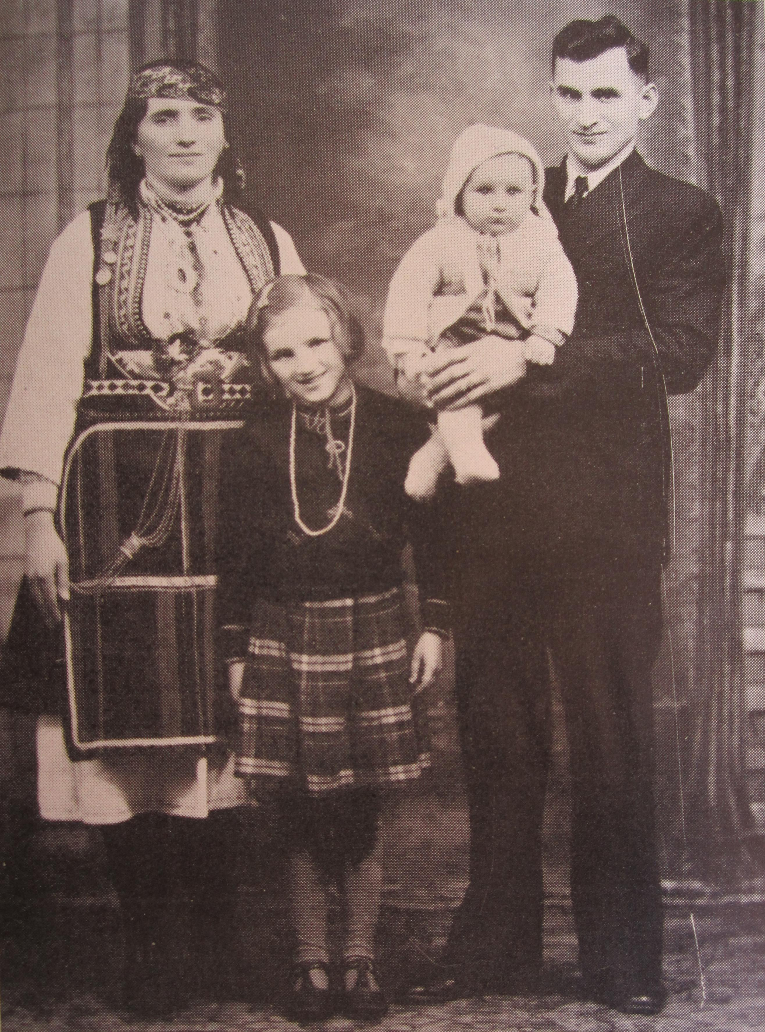 Rulya - Folk costume